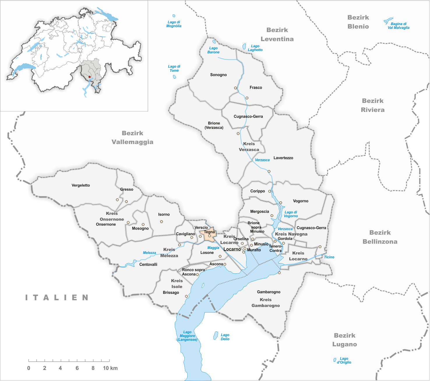 Municipality Tegna Artist: Tschubby